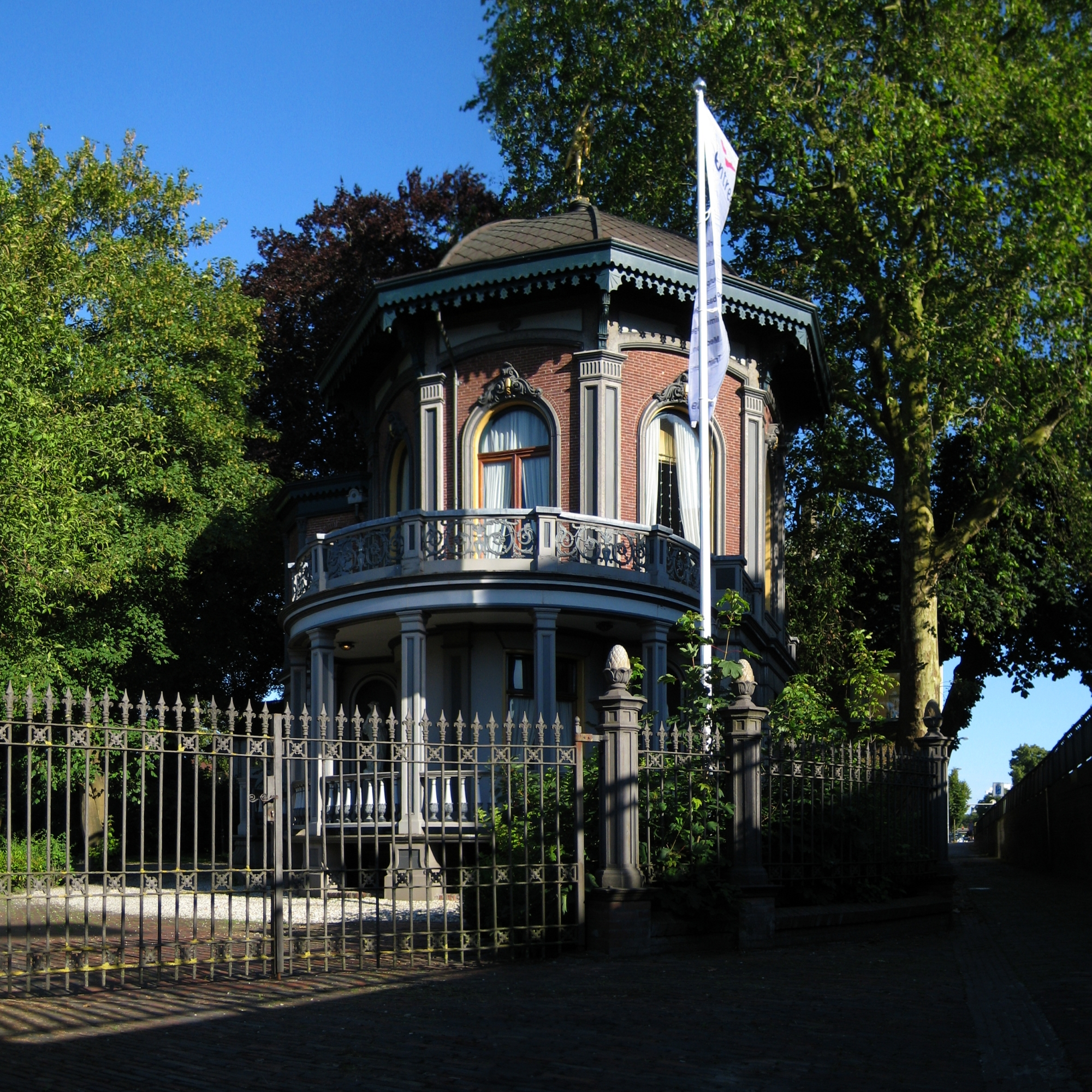 The Scholtenskoepel (1869) in the Dutch city of Groningen.